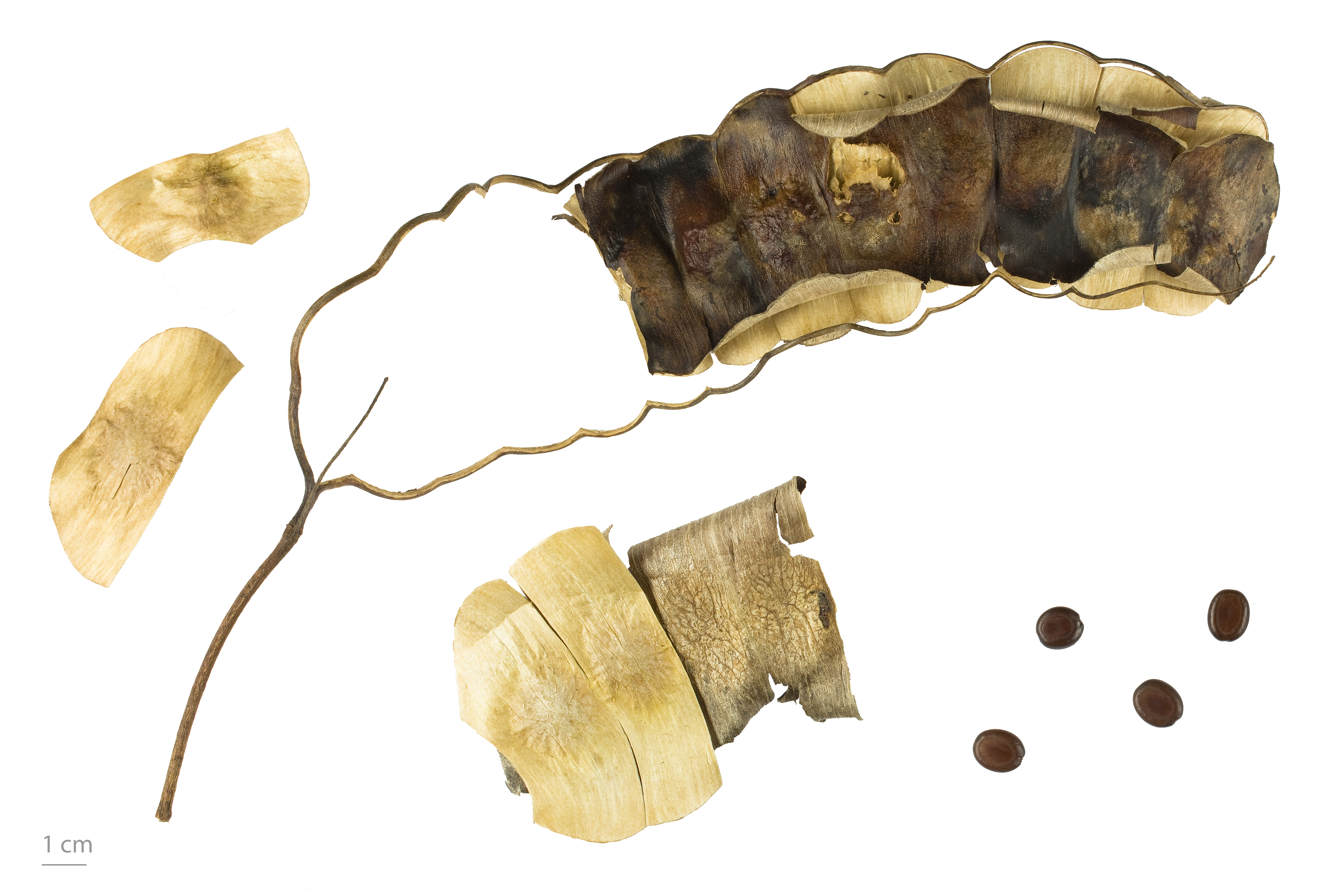 Umusange, mushangeshange, fruits and seeds